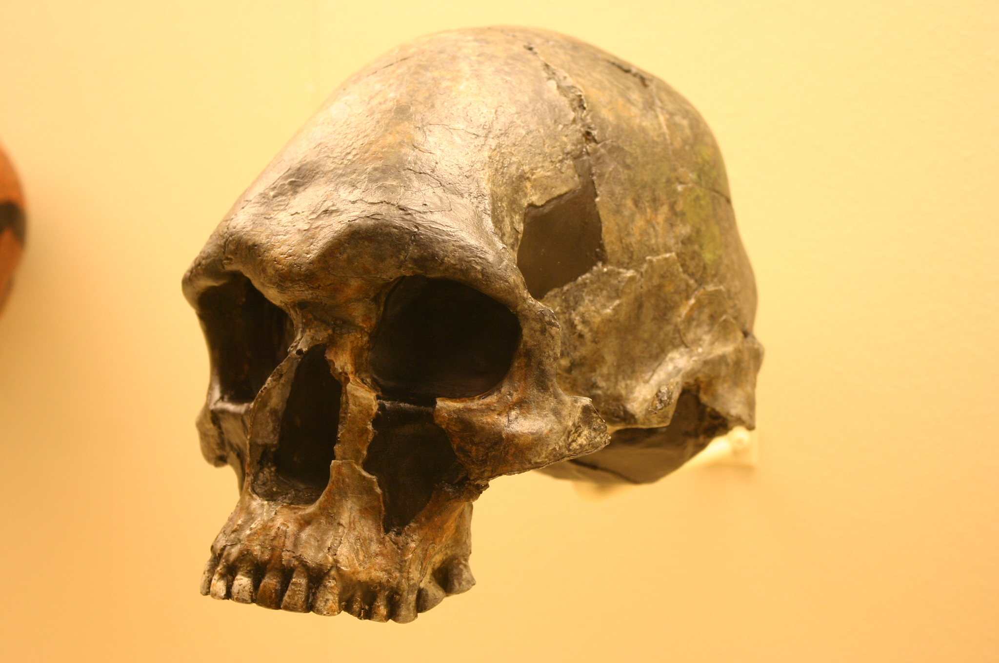 Taken at the David H. Koch Hall of Human Origins at the Smithsonian Natural History Museum.